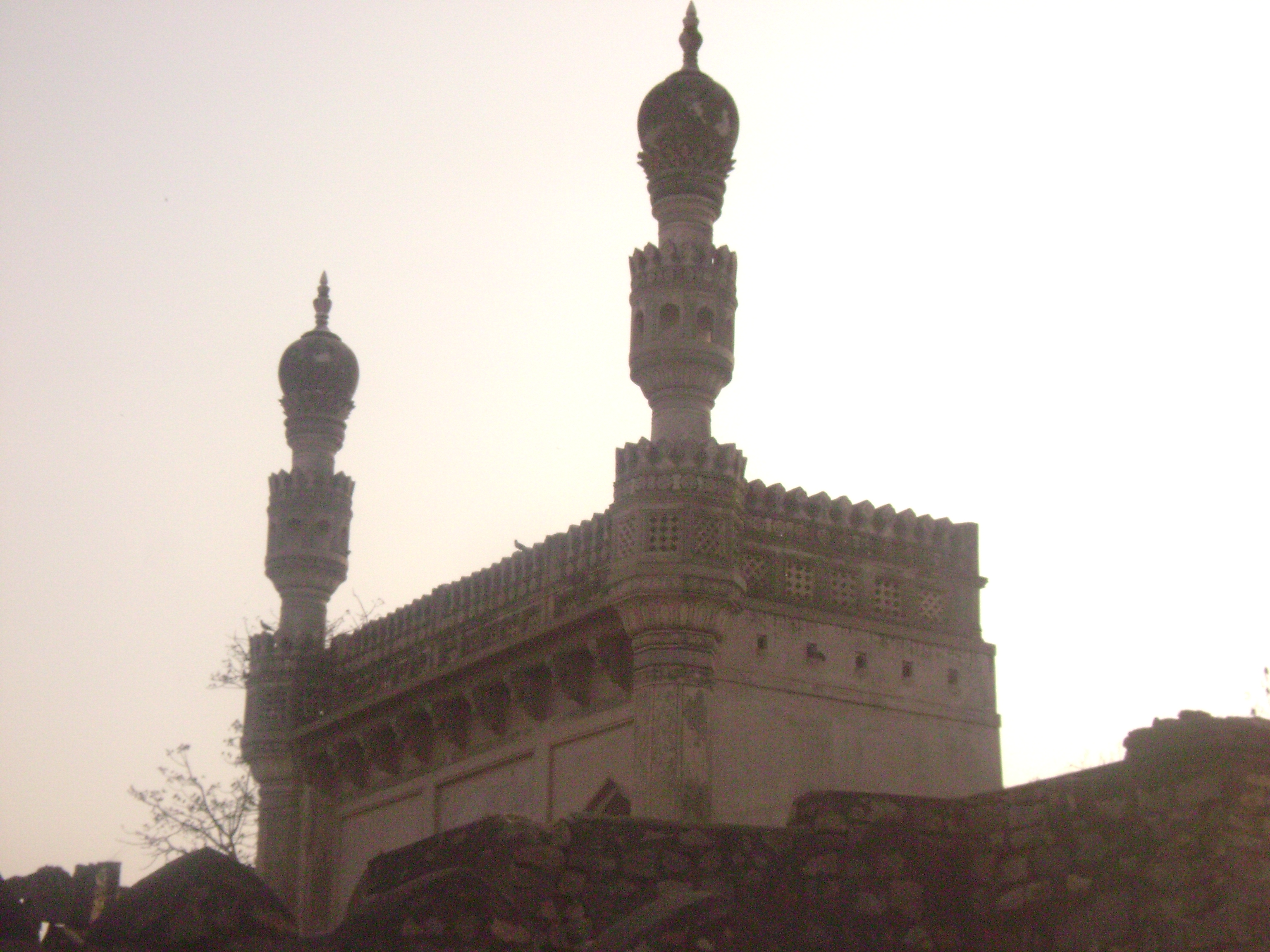 Golkonda Fort, Fortifications